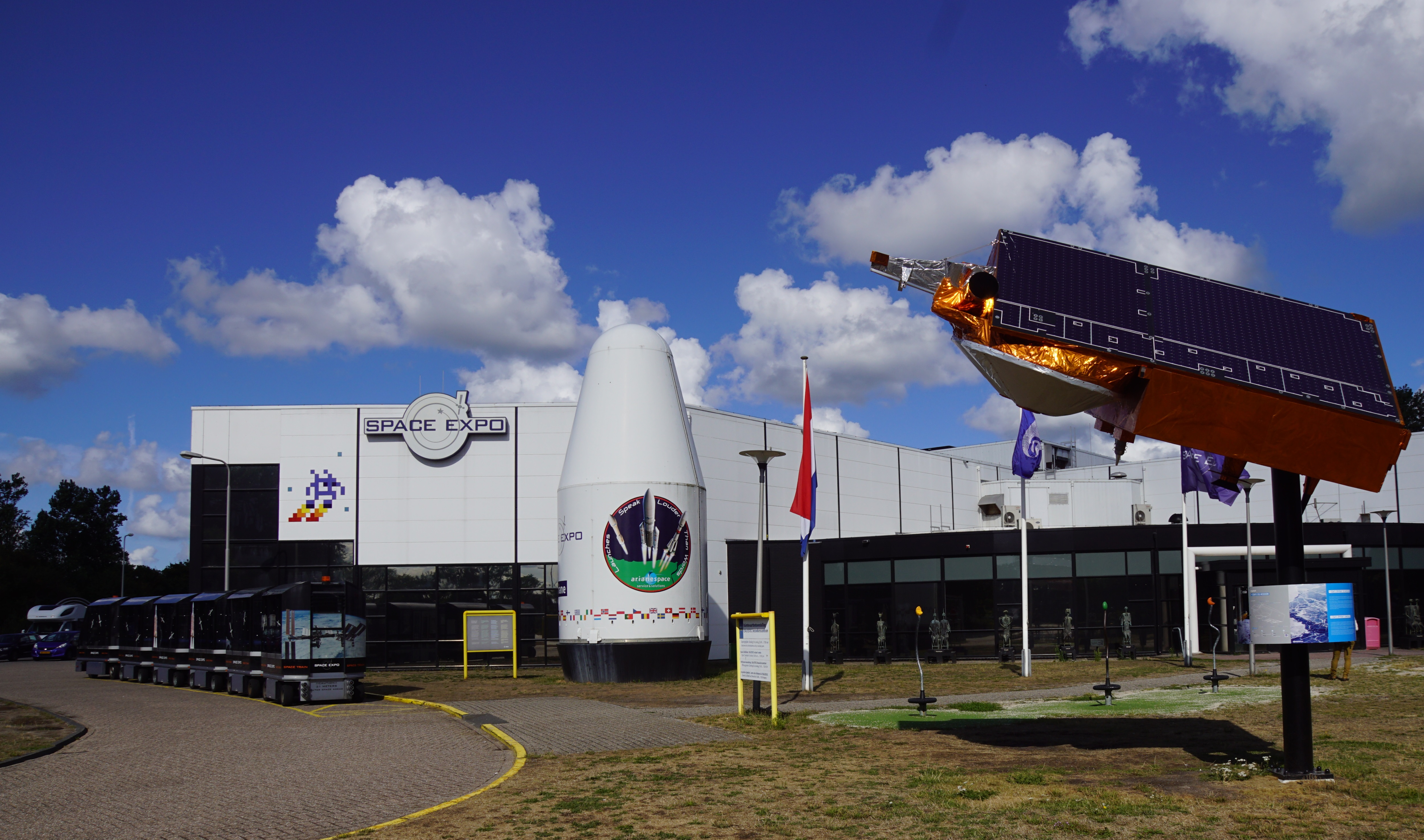 Space Expo, Noordwijk, The Netherlands.